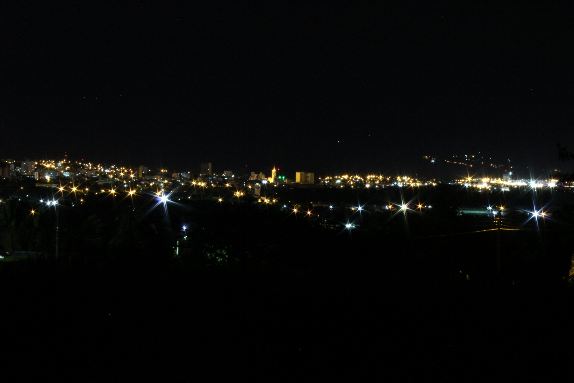 Night view of Neiva.